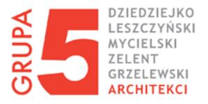 Grupa 5 Architekci logo